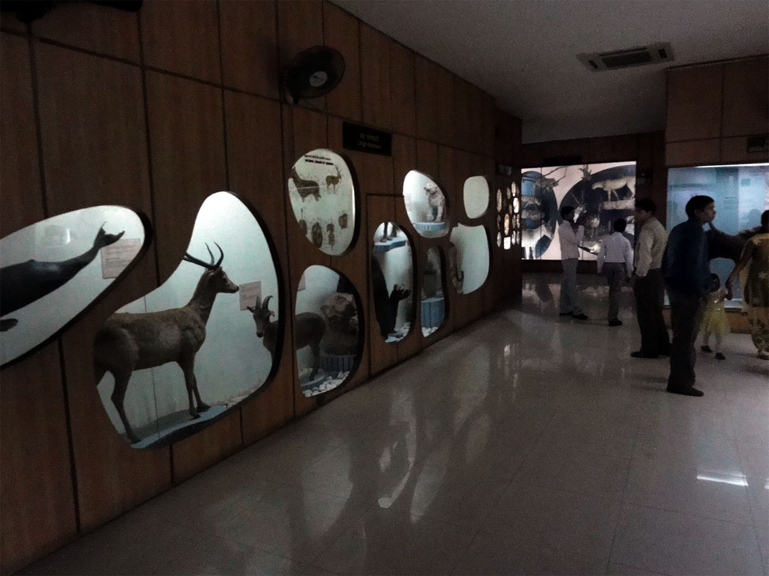 Exhibit Hall inside the National Museum of Natural History, Government of India.